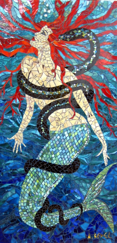 mermaid, snake and coral hair